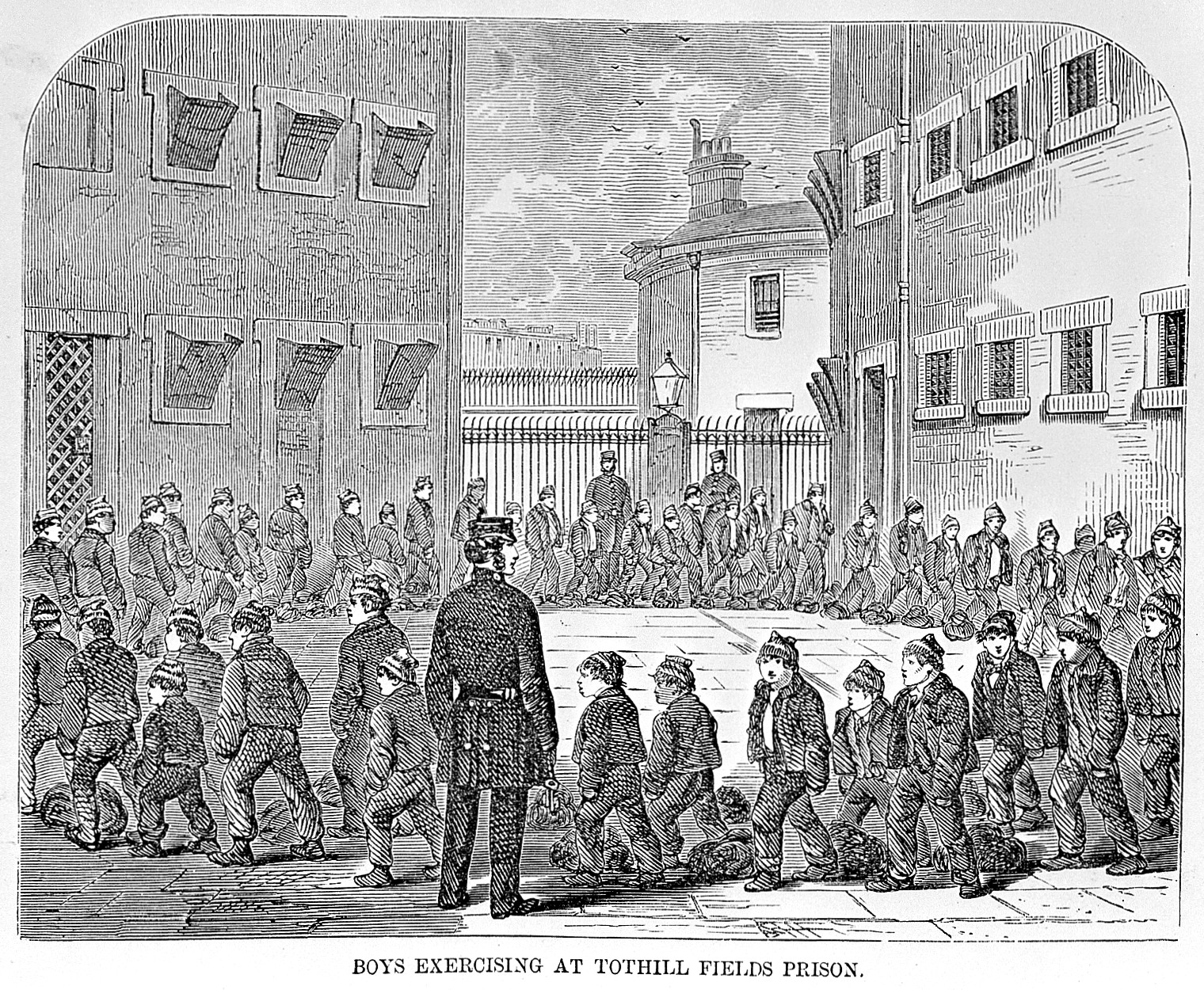 Boys exercising at Tothill Fields Bridewell (prison) General Collections Keywords: Institutions